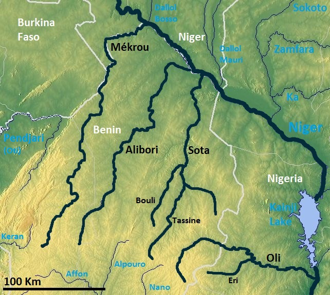 River Niger Tributaries from Benin OSM